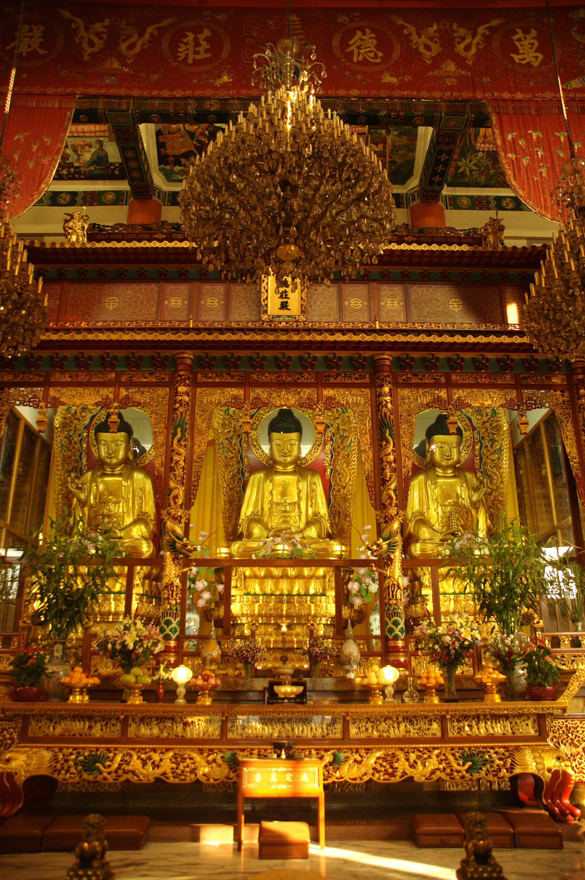 The Mahavira Hall of the Ten Thousand Buddhas Hall, Miu Fat Buddhist Monastery, Tuen Mun, New Territories, Hong Kong.